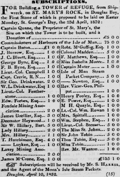 List of subscribers to the erection of the Tower of Refuge, Douglas Bay.